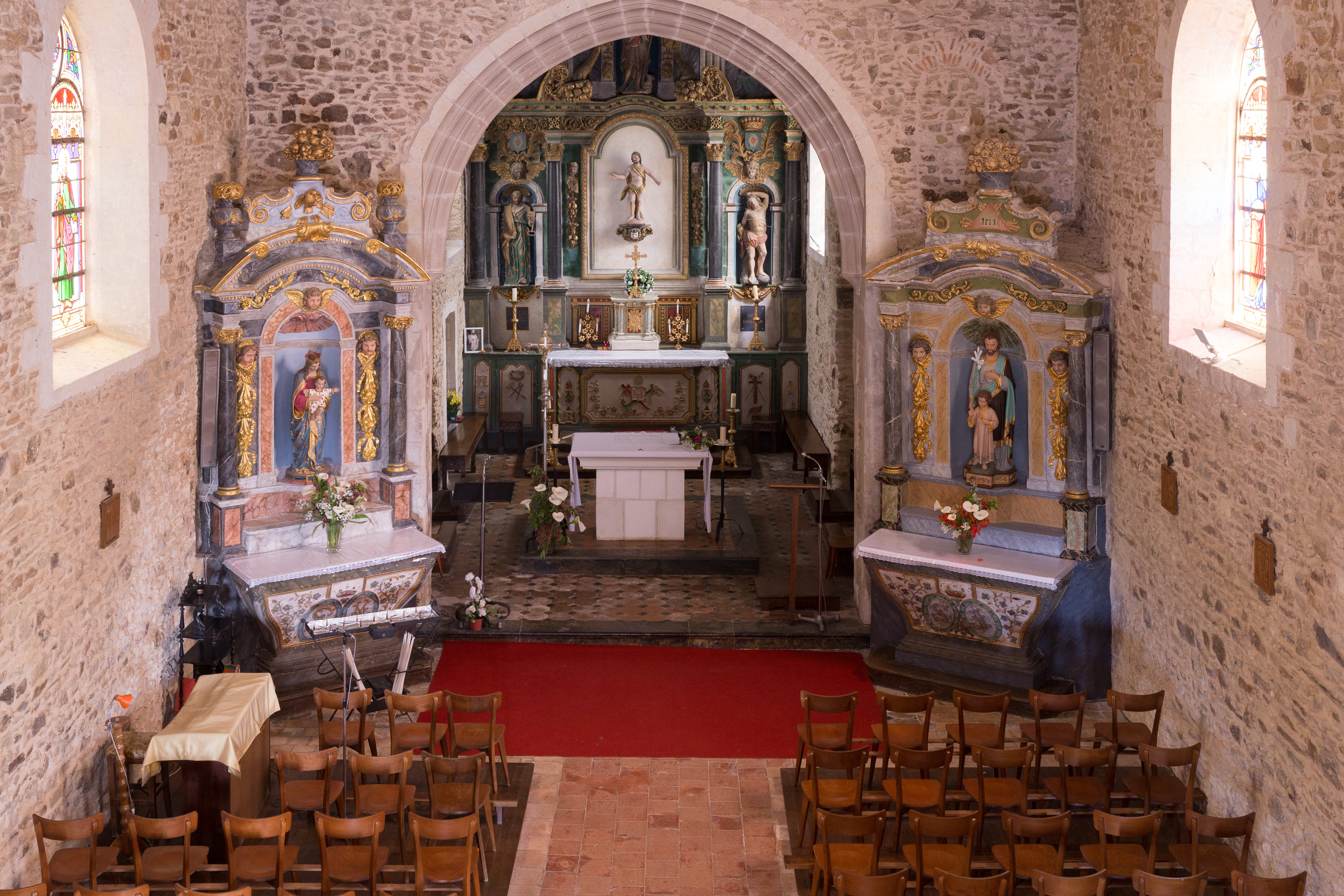 Church of Peuton.